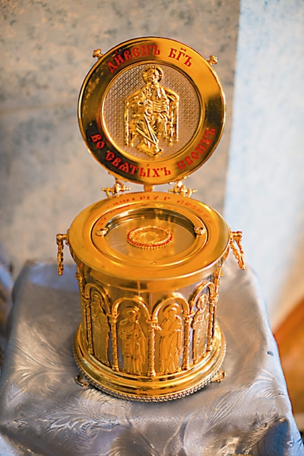 The holy relic